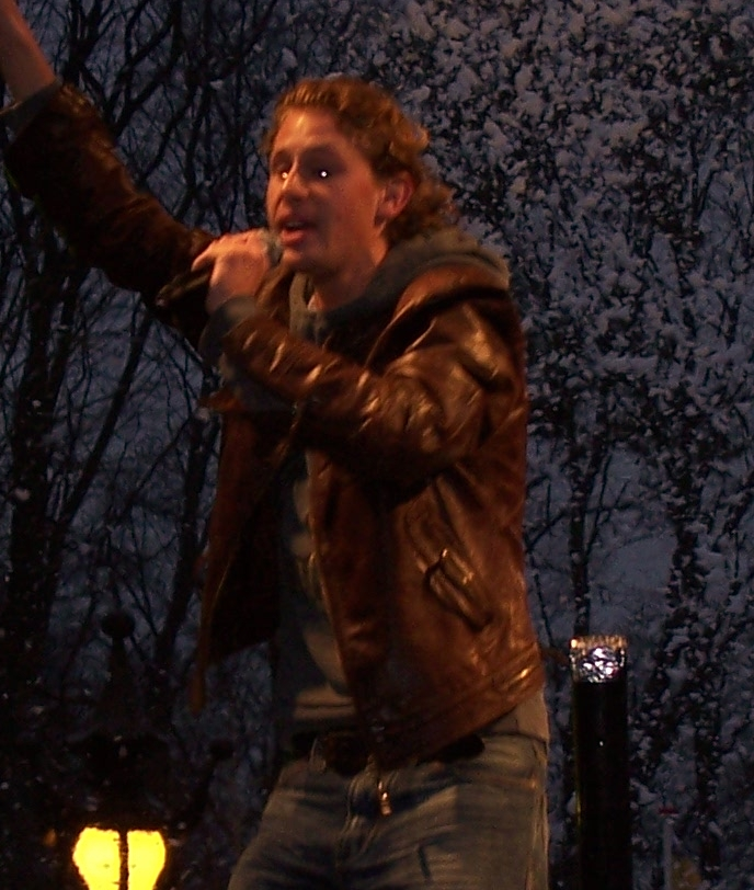 Ewout Genemans (a well known dutch actor by children because of his role in the soap ZOOP)